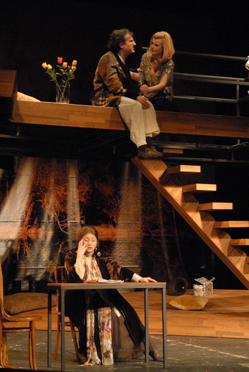 "The Secret Diary of Virginia Woolf", adaptation and direction by Milena Pavlović Čučilović; Drama of the SNT, Novi Sad, 2009/10, Gordana Đurđević Dimić, Radoje Čupić and Tijana Maksimović Srpski (latinica): "Tajni dnevnik Virdžinije Vulf", adaptacija i režija: Milena Pavlović Čučilović; Drama SNP, Gordana Đurđević Dimić, gore - Radoje Čupić, Tijana Maksimović Српски (ћирилица): "Тајни дневник Вирџиније Вулф", адаптација и режија: Милена Павловић Чучиловић; Драма СНП, Гордана Ђурђевић Димић, горе - Радоје Чупић, Тијана Максимовић